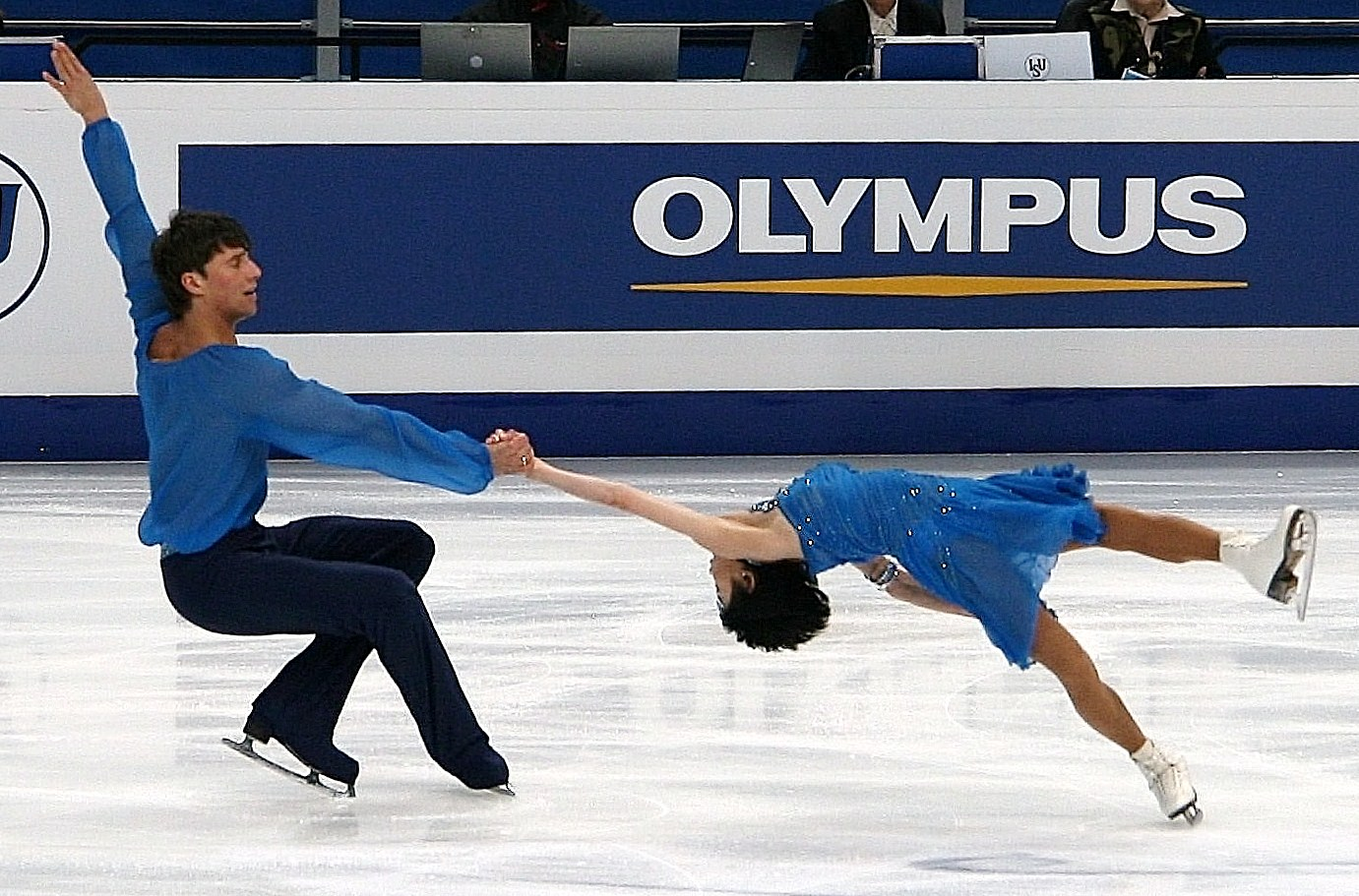 Yuko Kavaguti and Alexander Smirnov at the 2011 World Figure Skating Championships